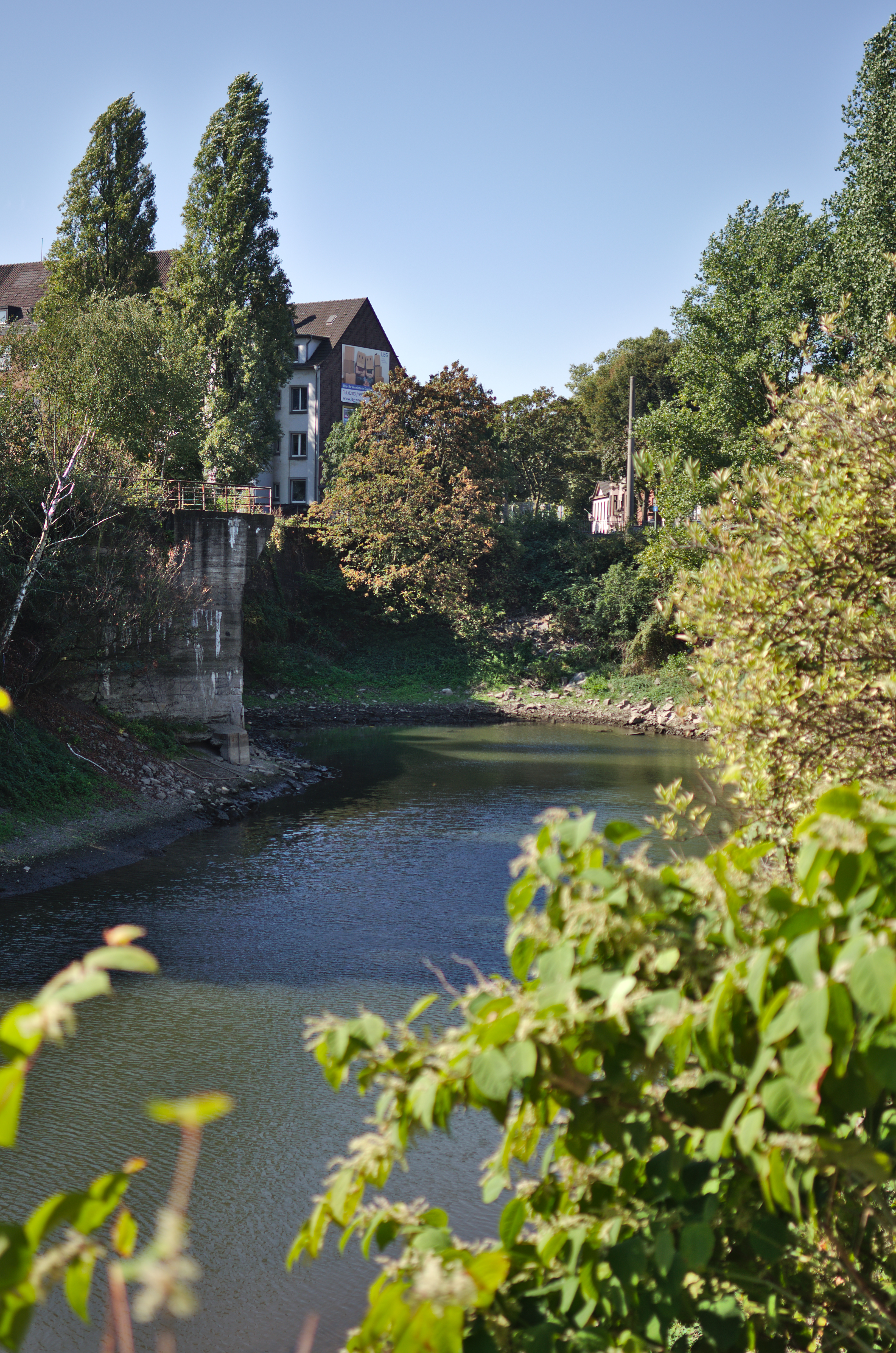 This is a photograph of an architectural monument., no. 163